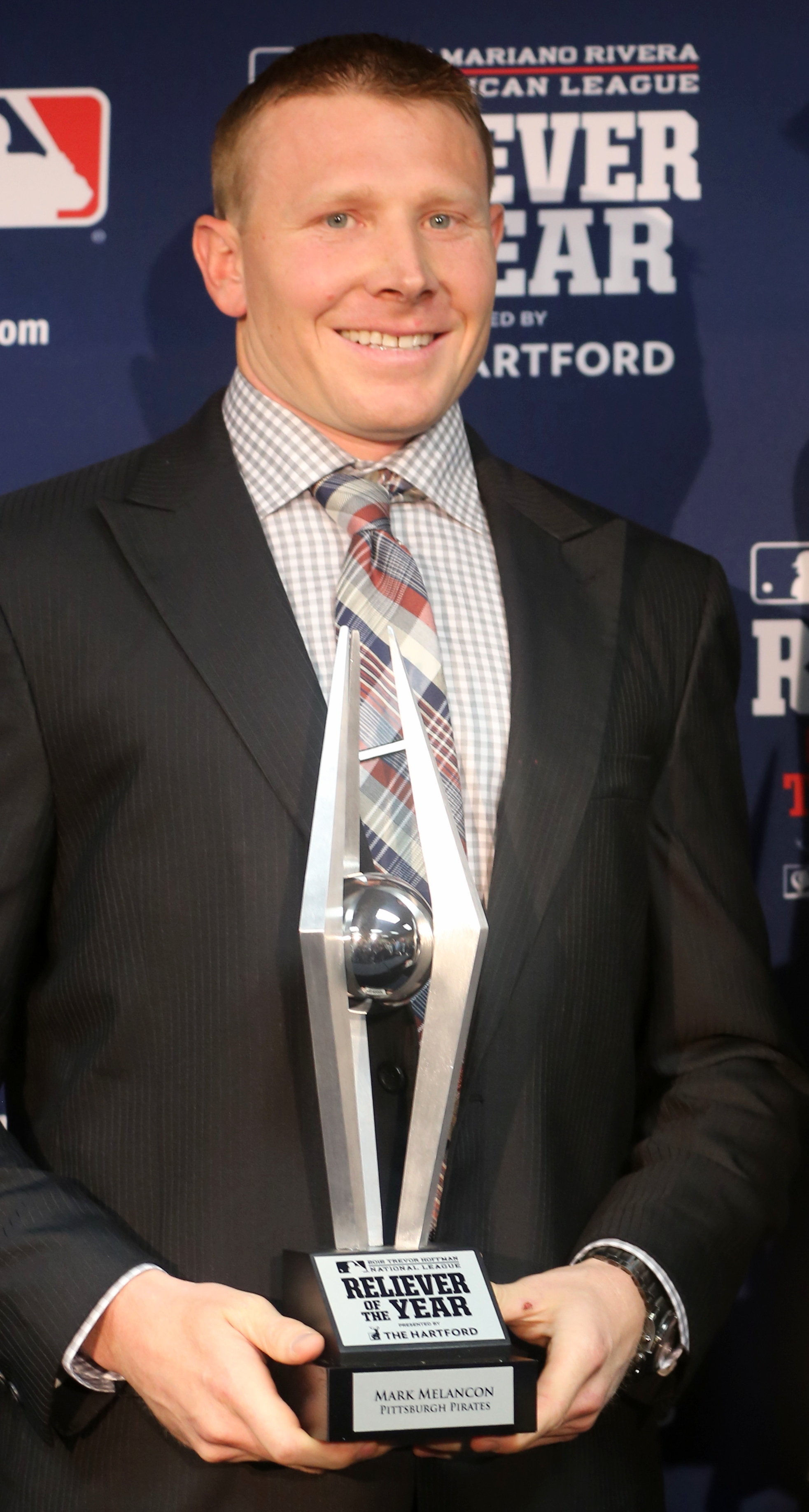 Mark Melancon and Andrew Miller pose with their Reliever of the Year Awards presented by The Hartford.